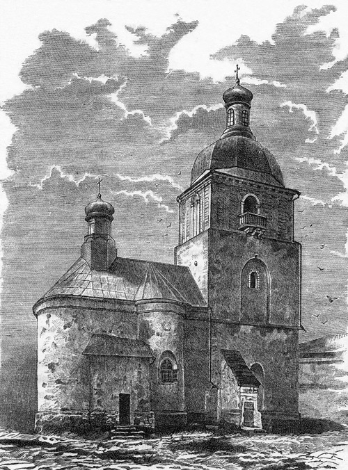 Former Saint John the Baptist church in Kamianets-Podilskyi.